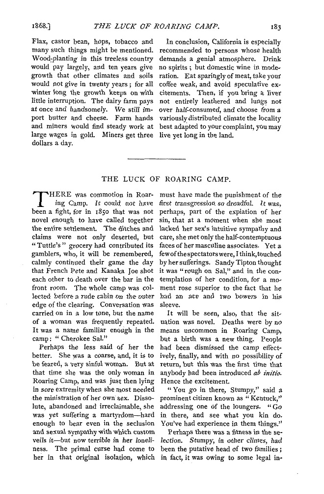 First page of the short story "The Luck of Roaring Camp" by American writer F. Bret Harte. From the Overland Monthly, August 1868. Scanned by Making of America project.